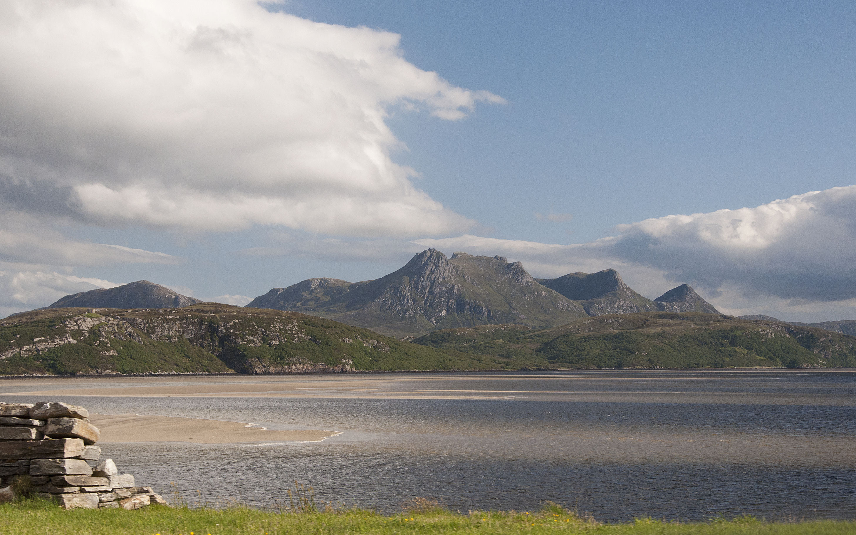 Ben Loyal form the west side of Kyle of Tongue, Sutherland